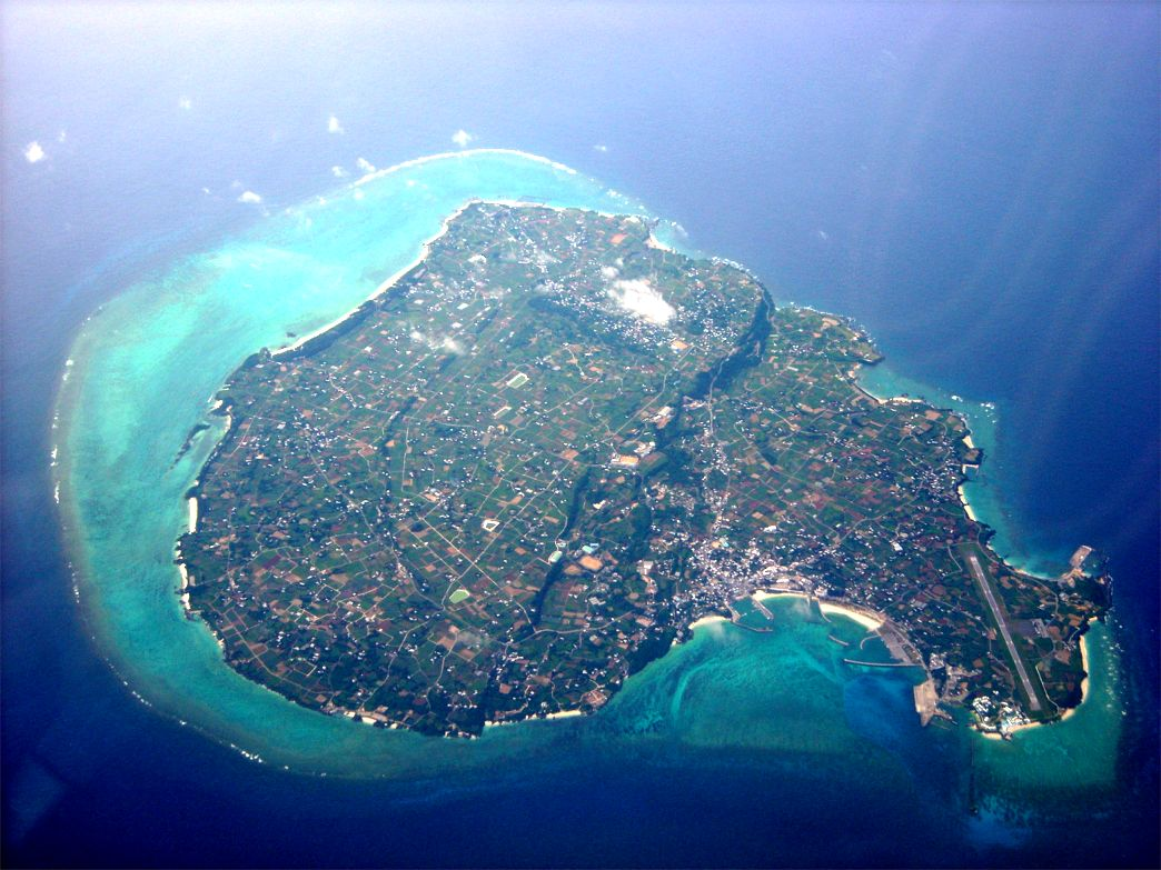 Yoronjima